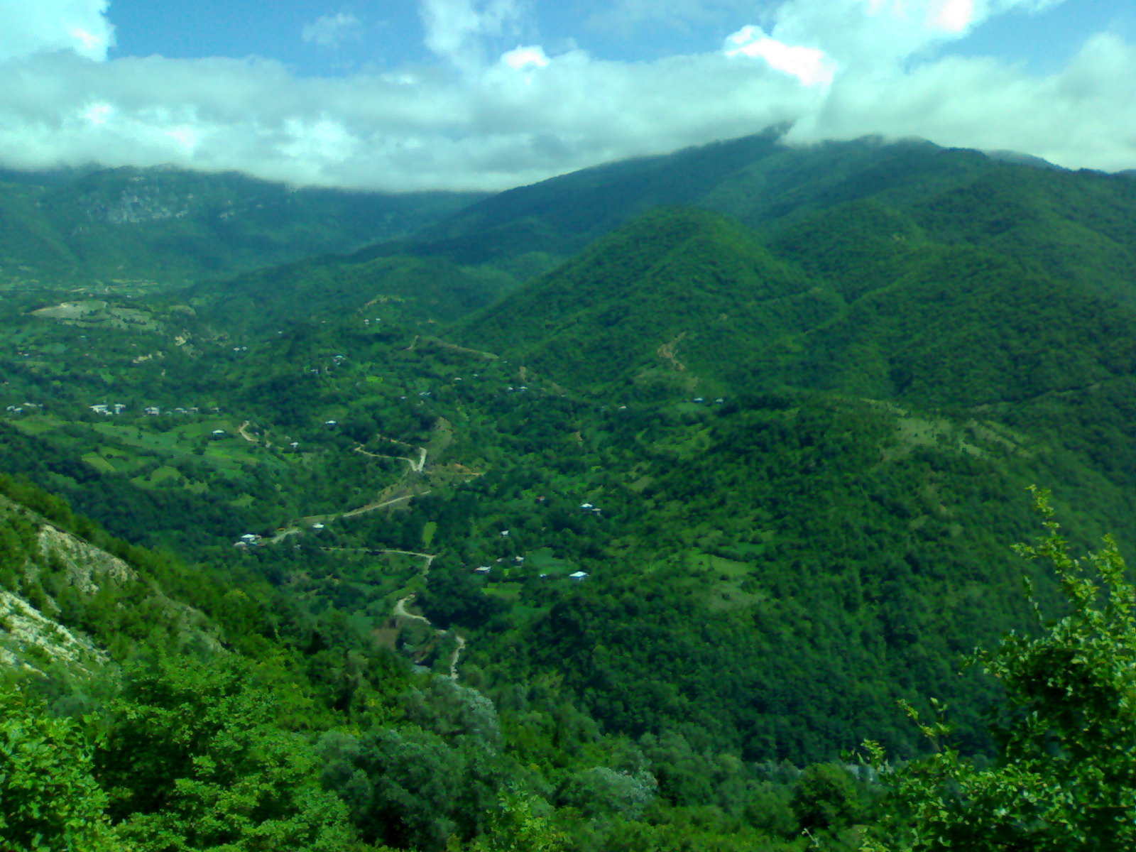 View from the Khvamli mountains